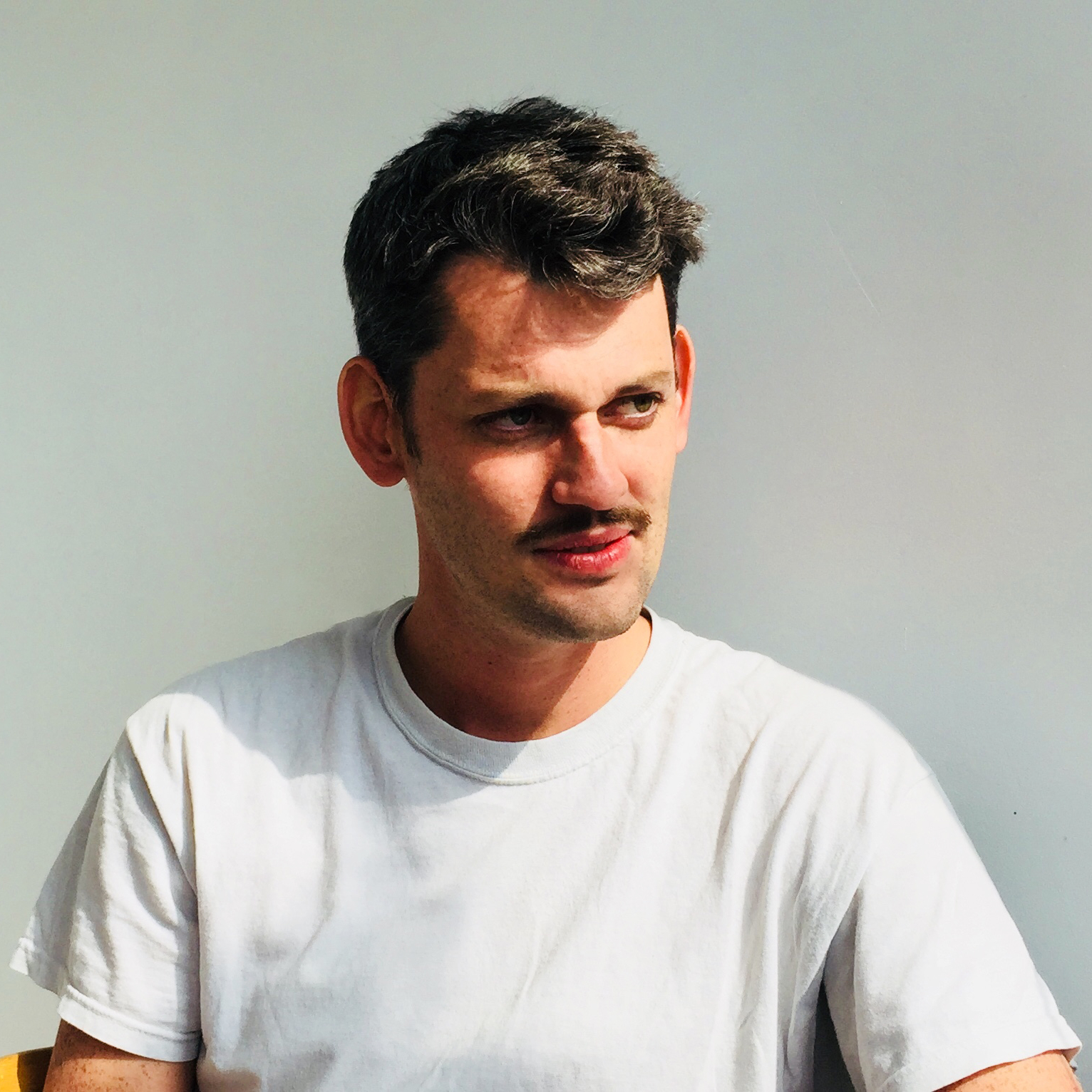 Max Pinckers